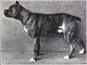 Boxer from 1915